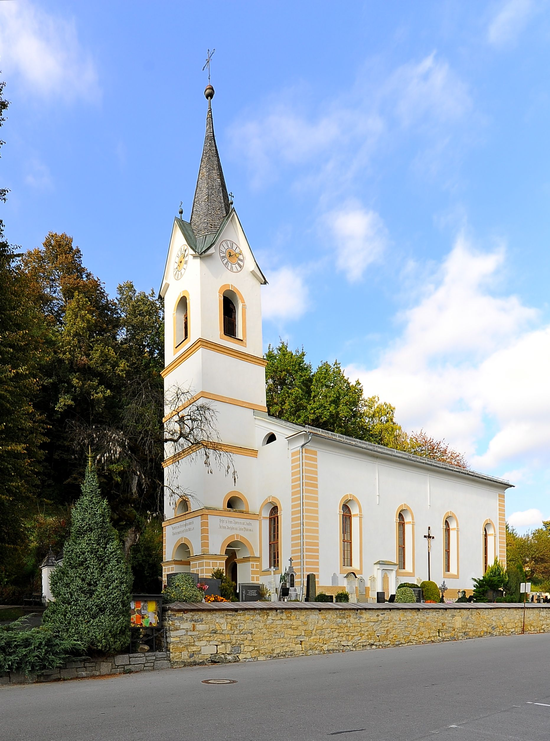 Lutheran church on Martin-Luther-Strasse #4 in Waiern, municipality Feldkirchen, district Feldkirchen, Carinthia, Austria, EU